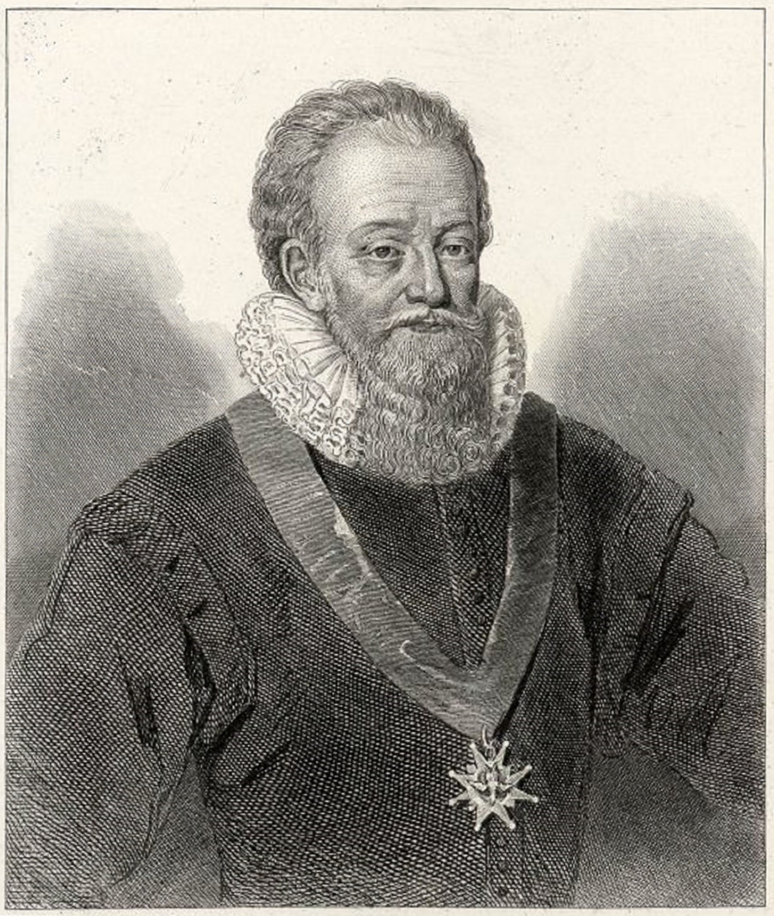 Portrait of Charles de Montmorency, Duke of Damville